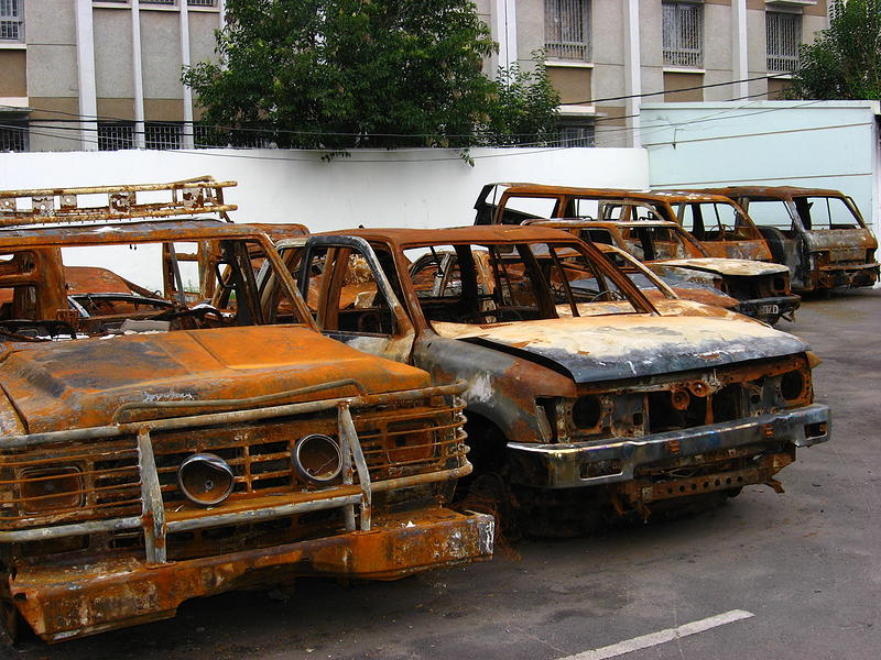 Cars looted and burned during the Madagascar riots of January and February 2009. Including one car which had just been donated by the FES (the one on the left).